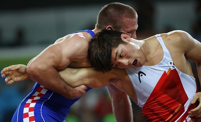 Rio 2016; Greco-Roman Wrestling 75 kg